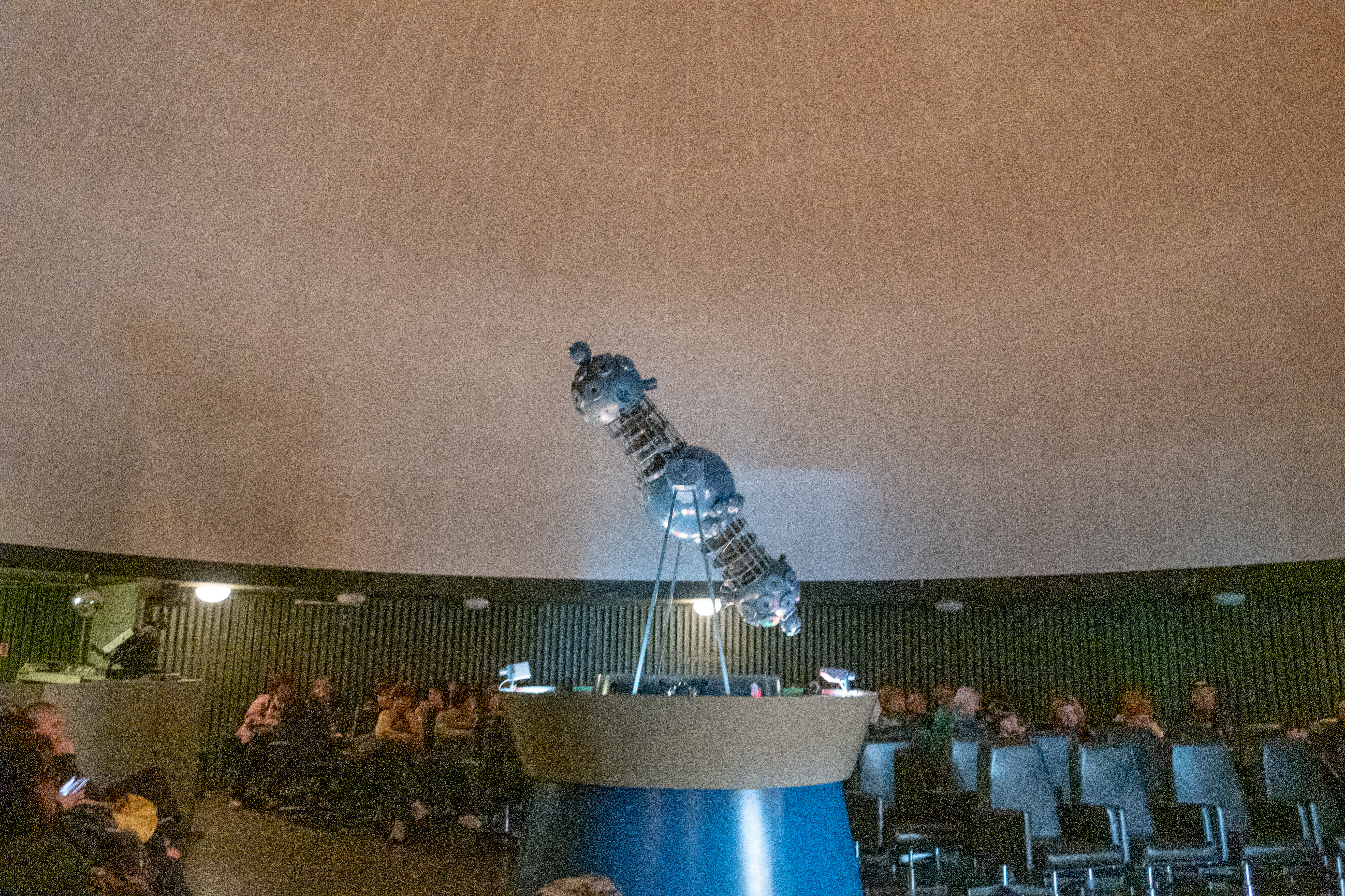 Smolyan Planetarium